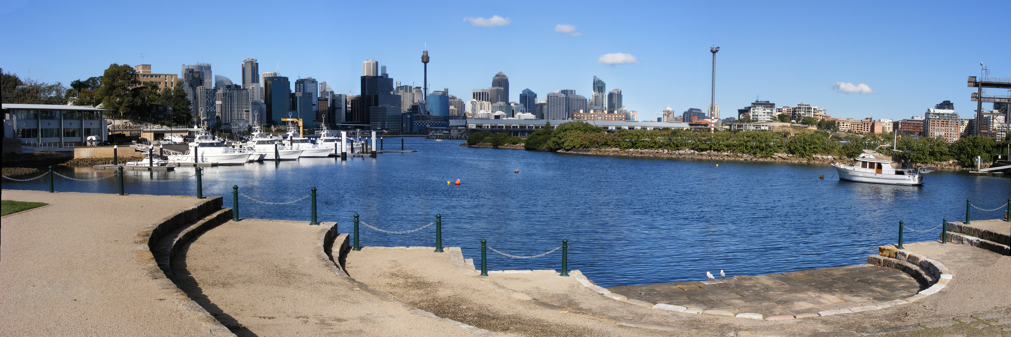 Balmain New South Wales